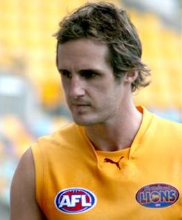 Travis Johnstone at a Brisbane Lions public training session in 2007. The Gabba, Brisbane, QLD, Australia.